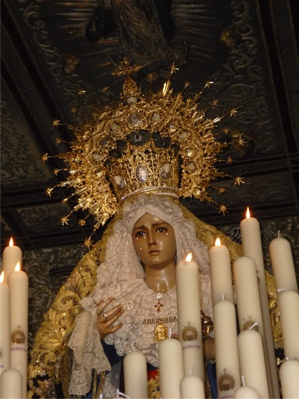 Ntra. Sra. de la Amargura.